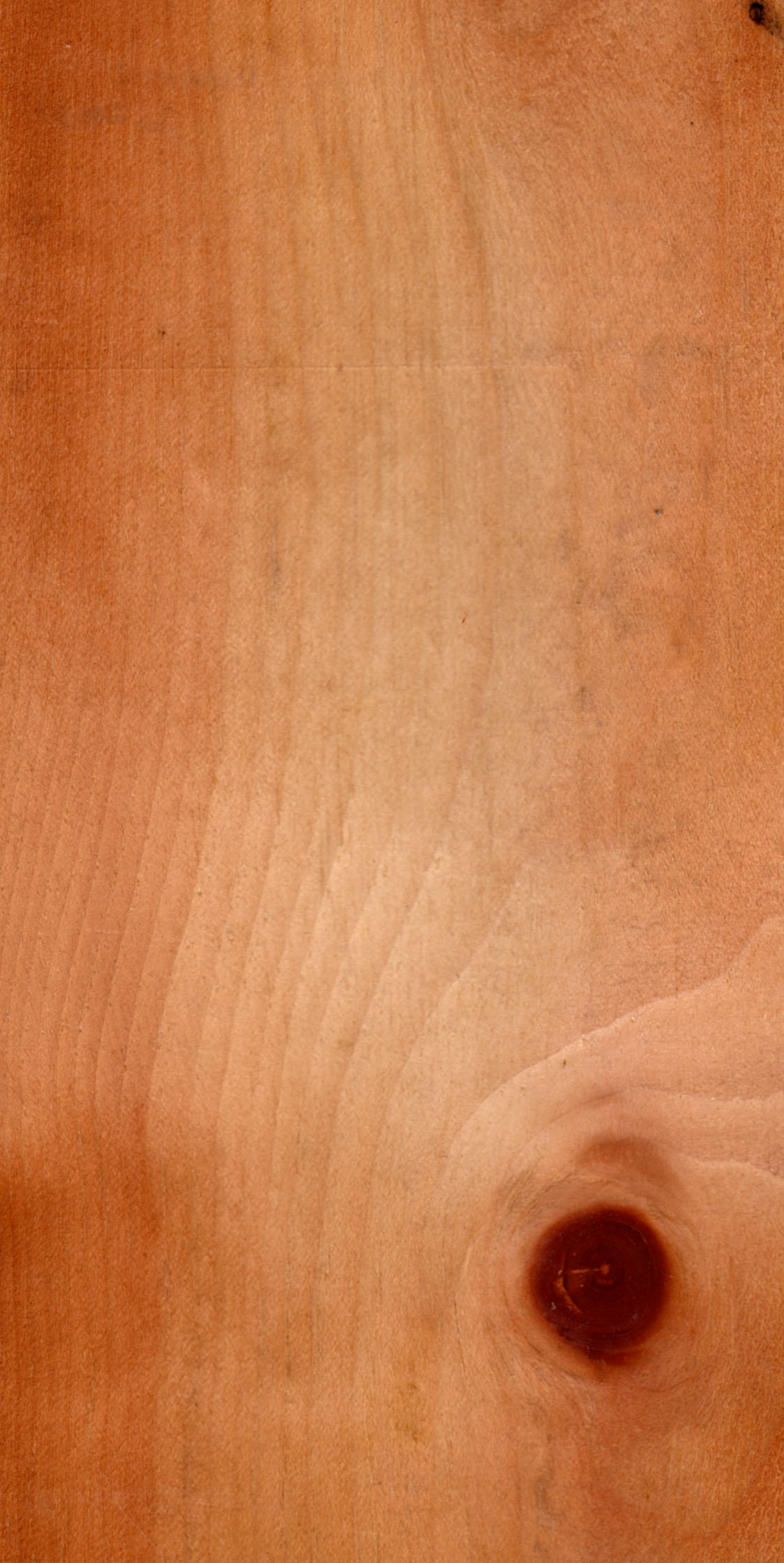 Wood of Pinus cembra